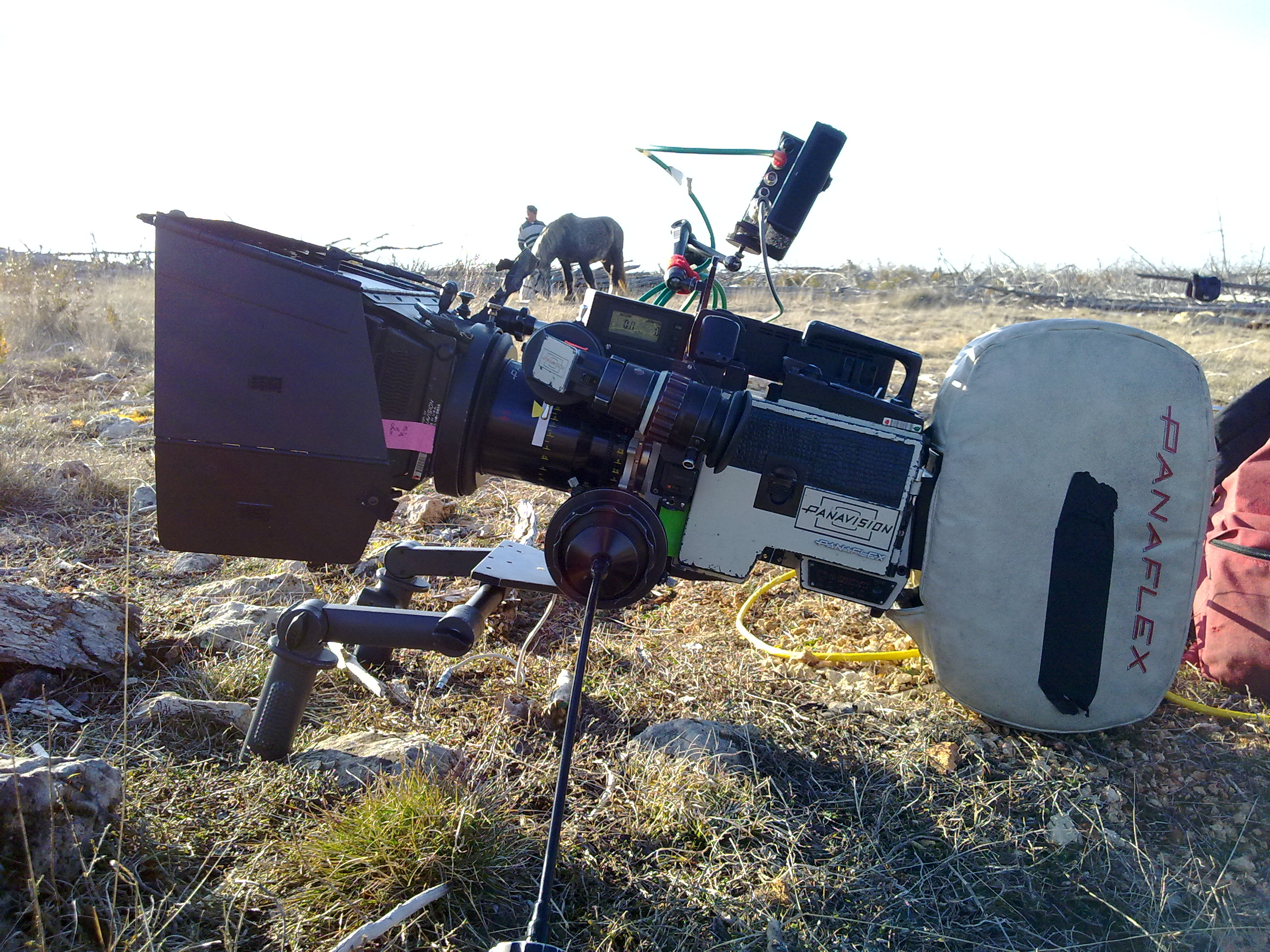 A Panaflex Platinum 35mm movie camera stuffed for handheld. The lens is a Primo prime lens.